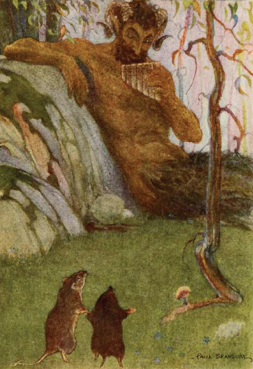 Rat, Mole and the Piper at the Gates of Dawn